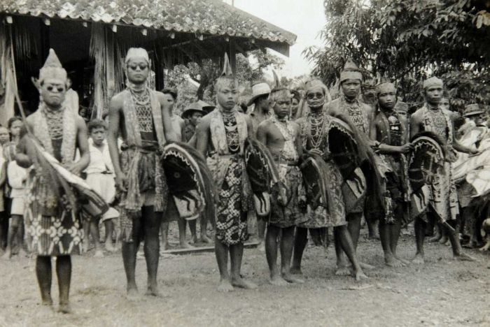 Dance with hobby horses at the celebration of the 2nd anniversary of the KNIL Battalion Infantry V 'Andjing Nica'